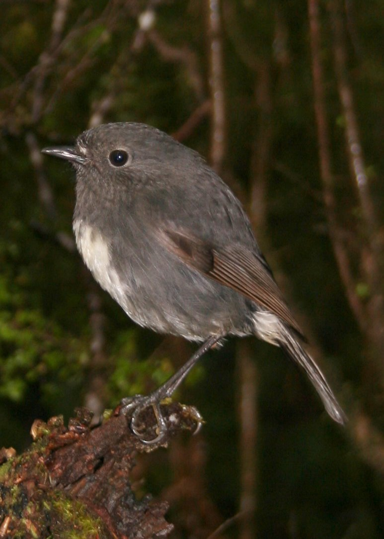 New Zealand Robin, Petroica australis subsp. australis